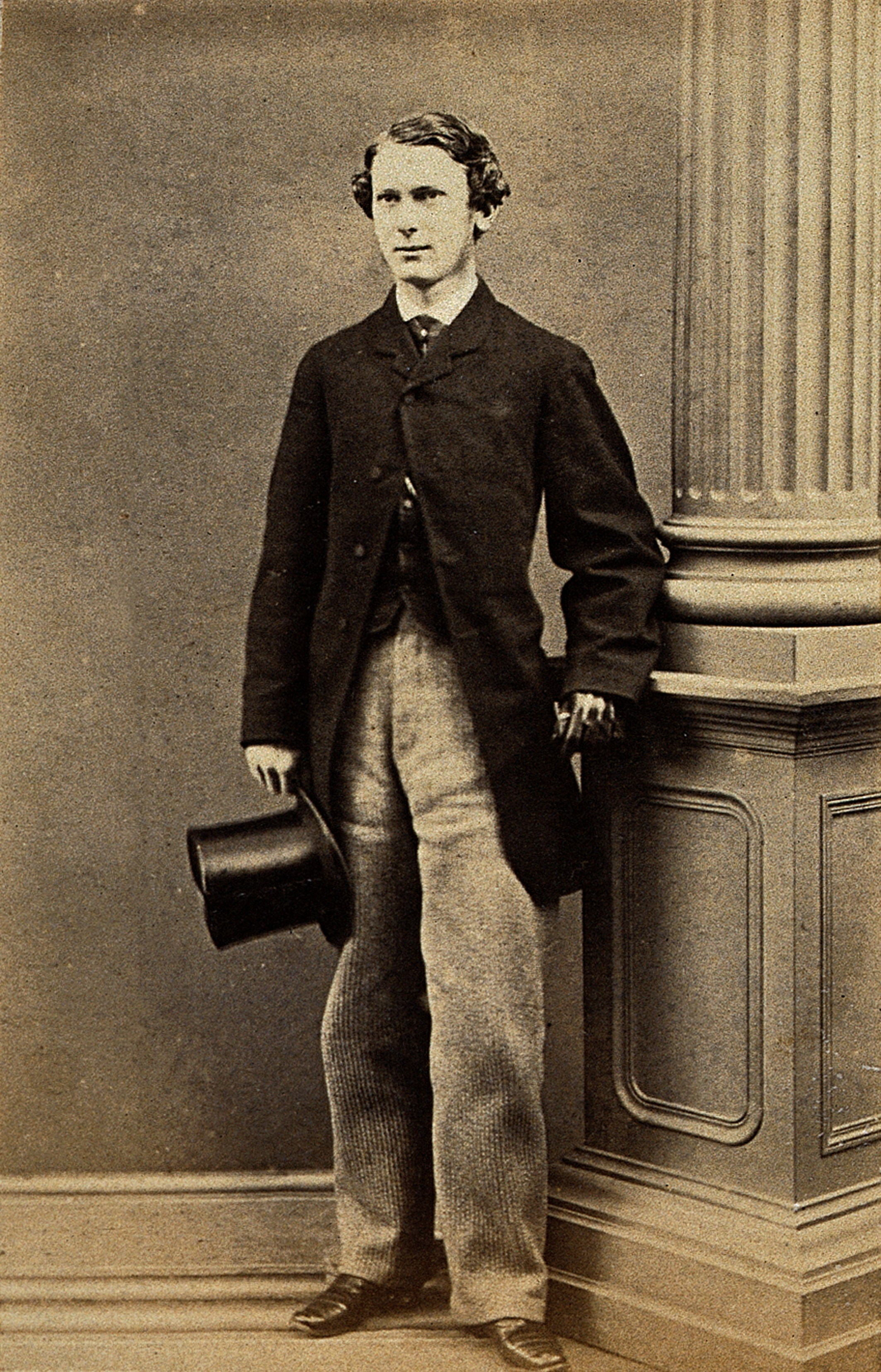 Albert Vickers. Photograph, Paris, 1863. Iconographic Collections Keywords: portrait photographs